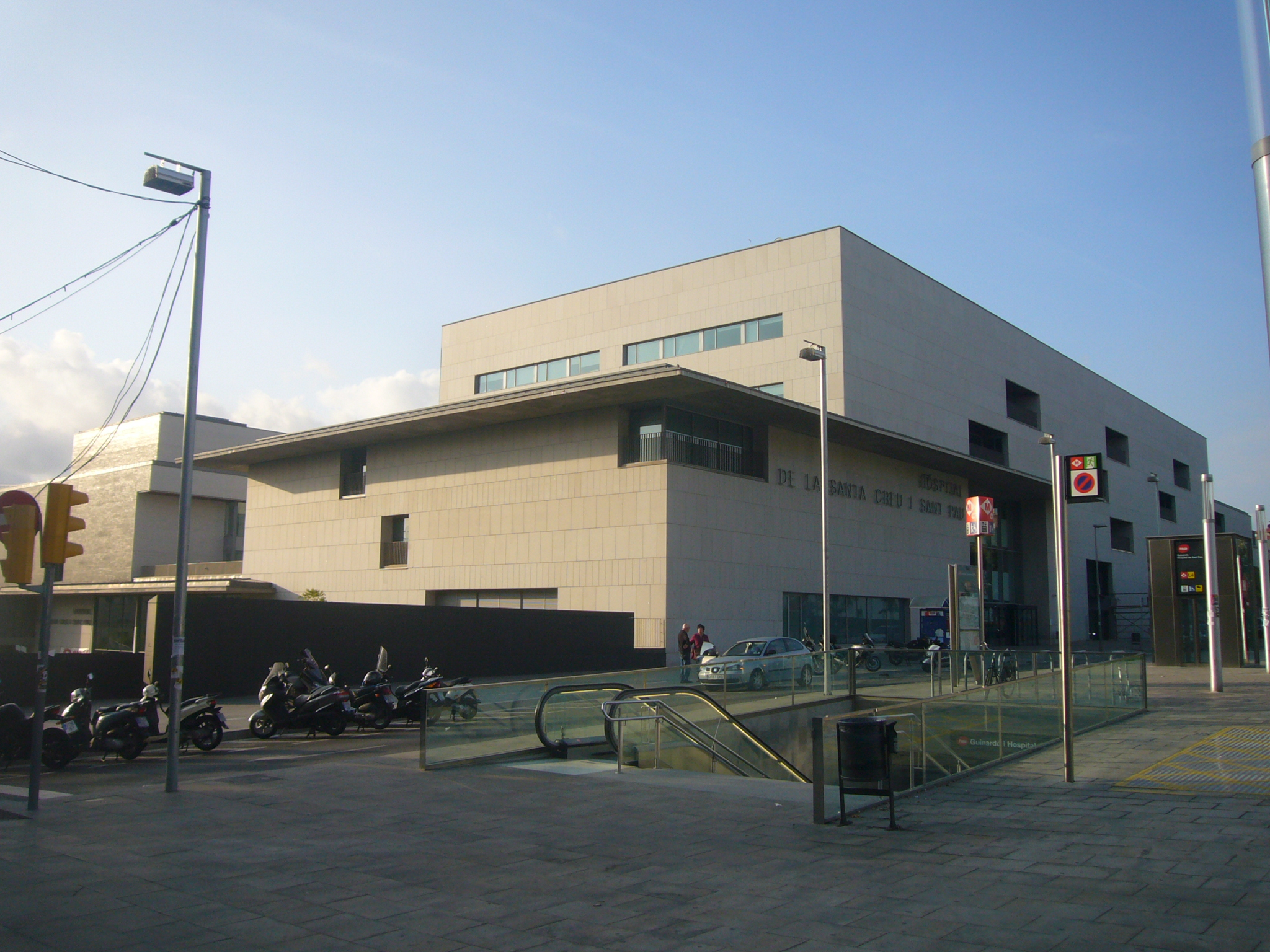 Hospital de la Santa Creu i Sant Pau (new building)